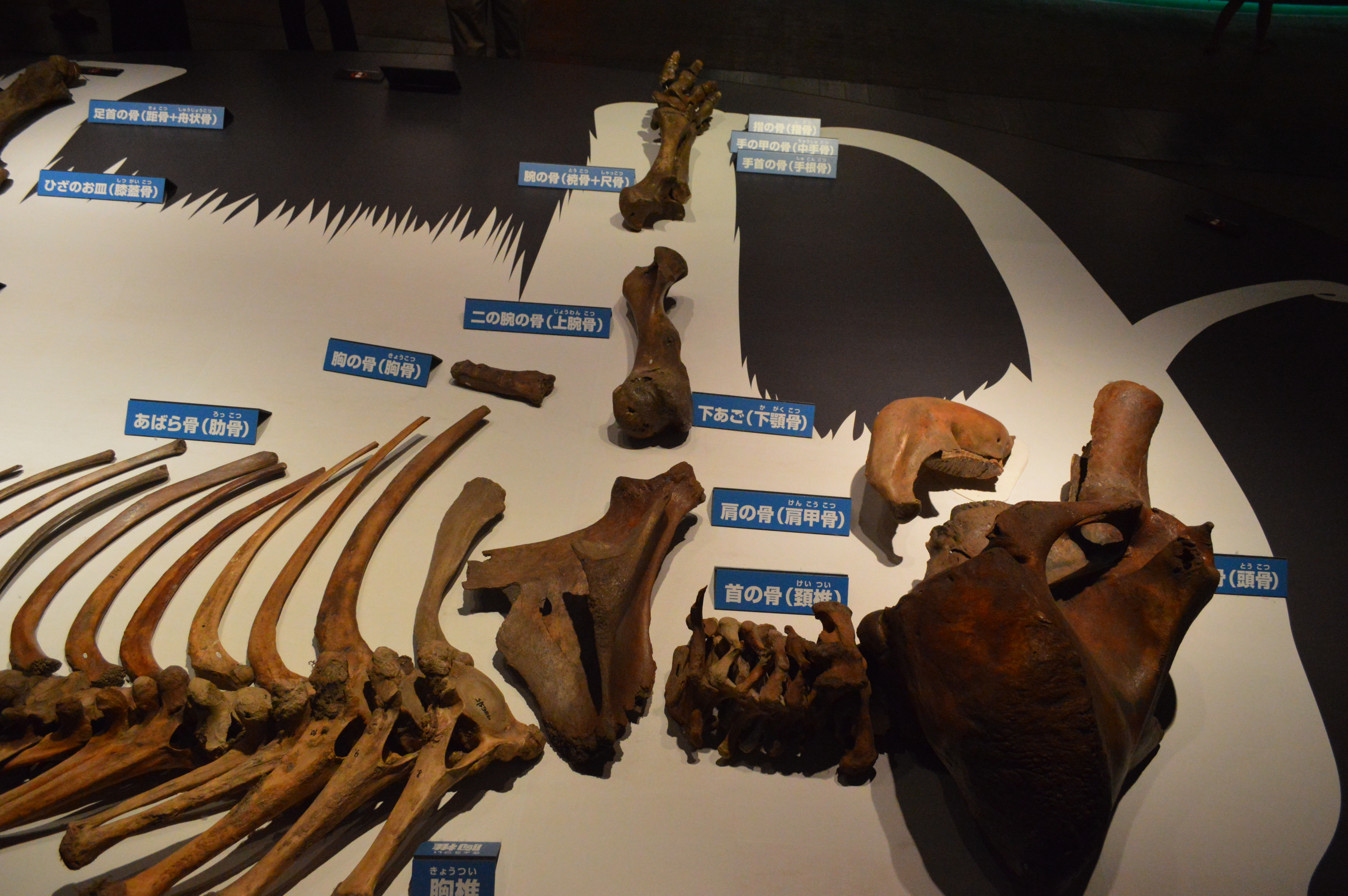 Mammoth's bone structure display at the Frozen Mammoth Yuka Exhibit in Yokohama, Japan in summer 2013. This photo covers the anterior half. Note that the mammoth itself is upside down although the Japanese name plates are not.